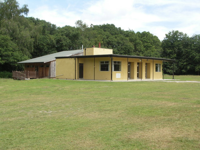 Girl Guide Building at Dudsbury Rings This (and adjacent buildings) are inside the Dudsbury Rings. The white notice on the front of the building reads "This stone was laid by Chief Guide, The Lady Baden Powell, Oct 3rd 1931".